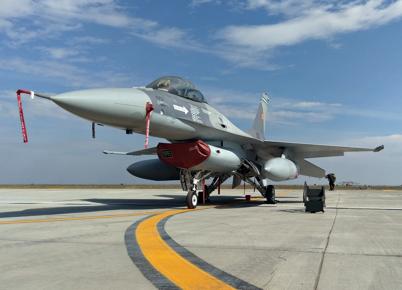 Romanian F-16 at Fetesti Air Base in October 2016